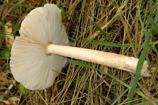 Amanita crocea from Commanster, Belgium. The determination of the species shown in this picture has been verified.